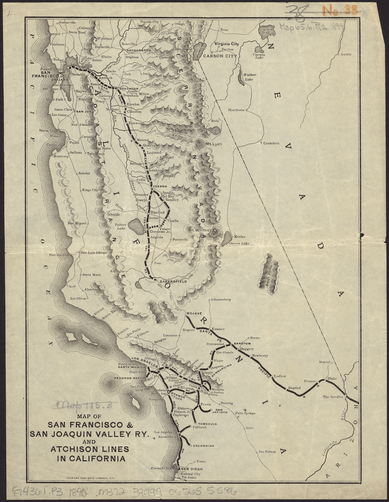 Zoom into at Publisher: American Bank Note Company Date: 1890 Location: California Dimensions: 26 x 19 cm. Scale: [ca. 1:3,300,000] Call Number: G4361.P3 1890 .M372